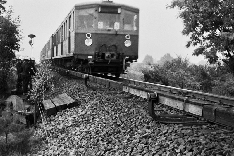 Photo by R. W. Rynerson. Third-rail S-Bahn train passes West Berlin firemen putting out a brush fire along the overgrown Lichterfelde-Sud line in 1969.